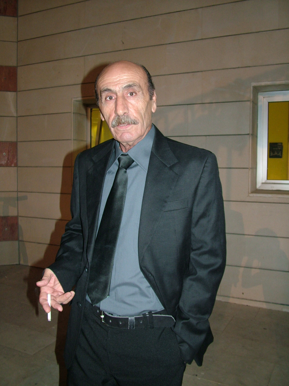 Joseph_Shiloach